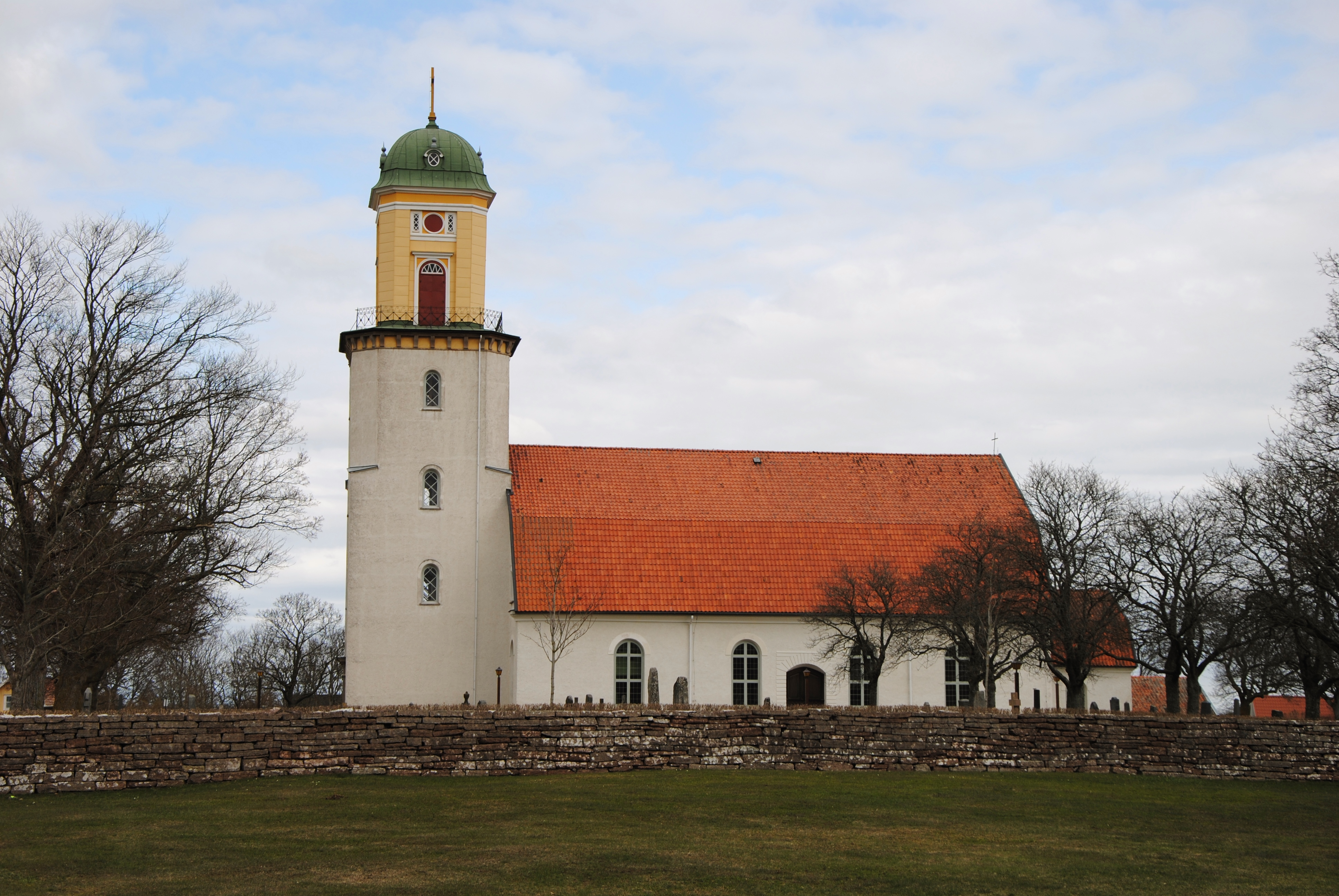 Algutsrum Church. Exterior from the South.